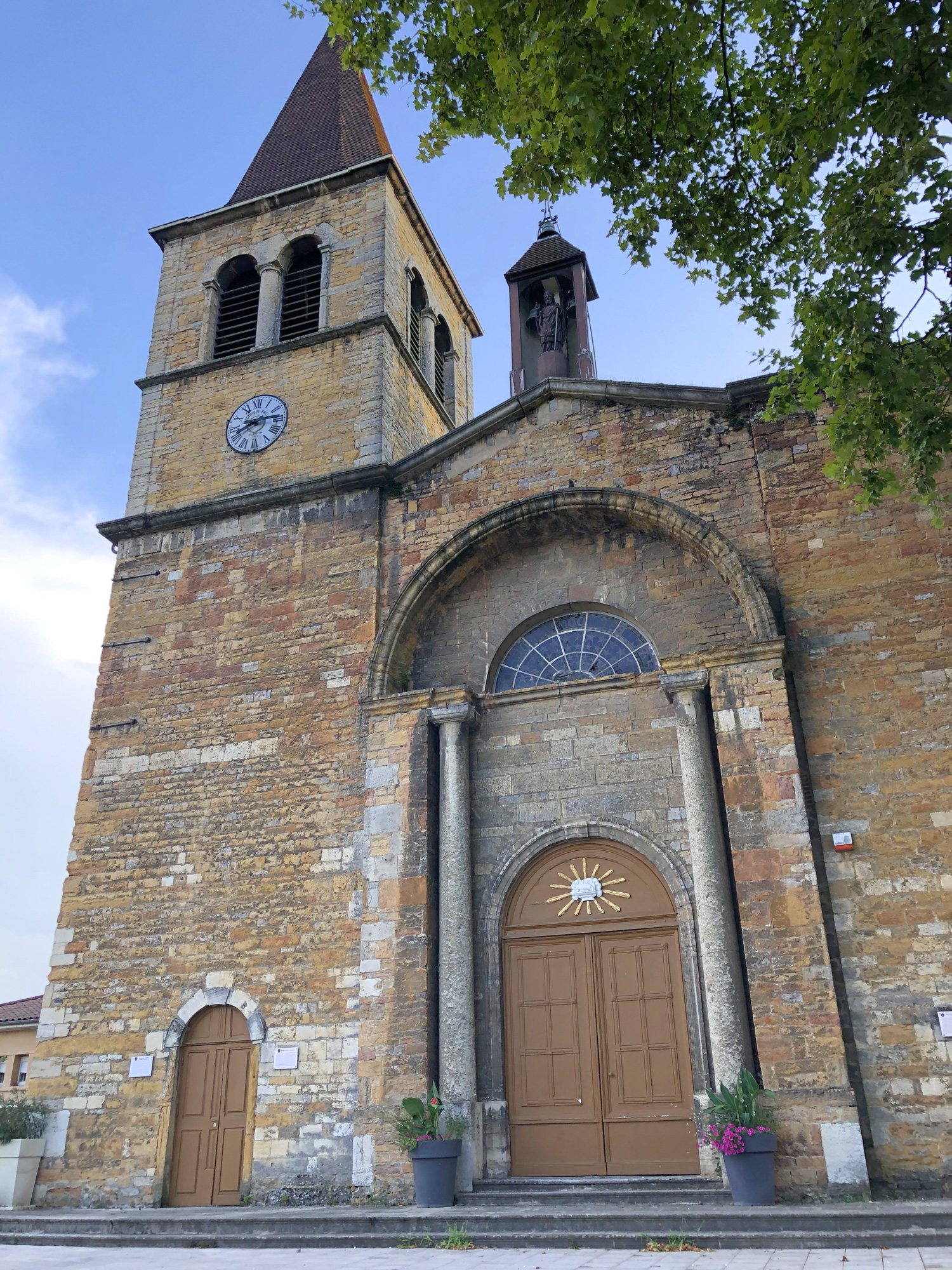 Église Saint Martin de Fontaines Saint Martin (69 -Rhône)